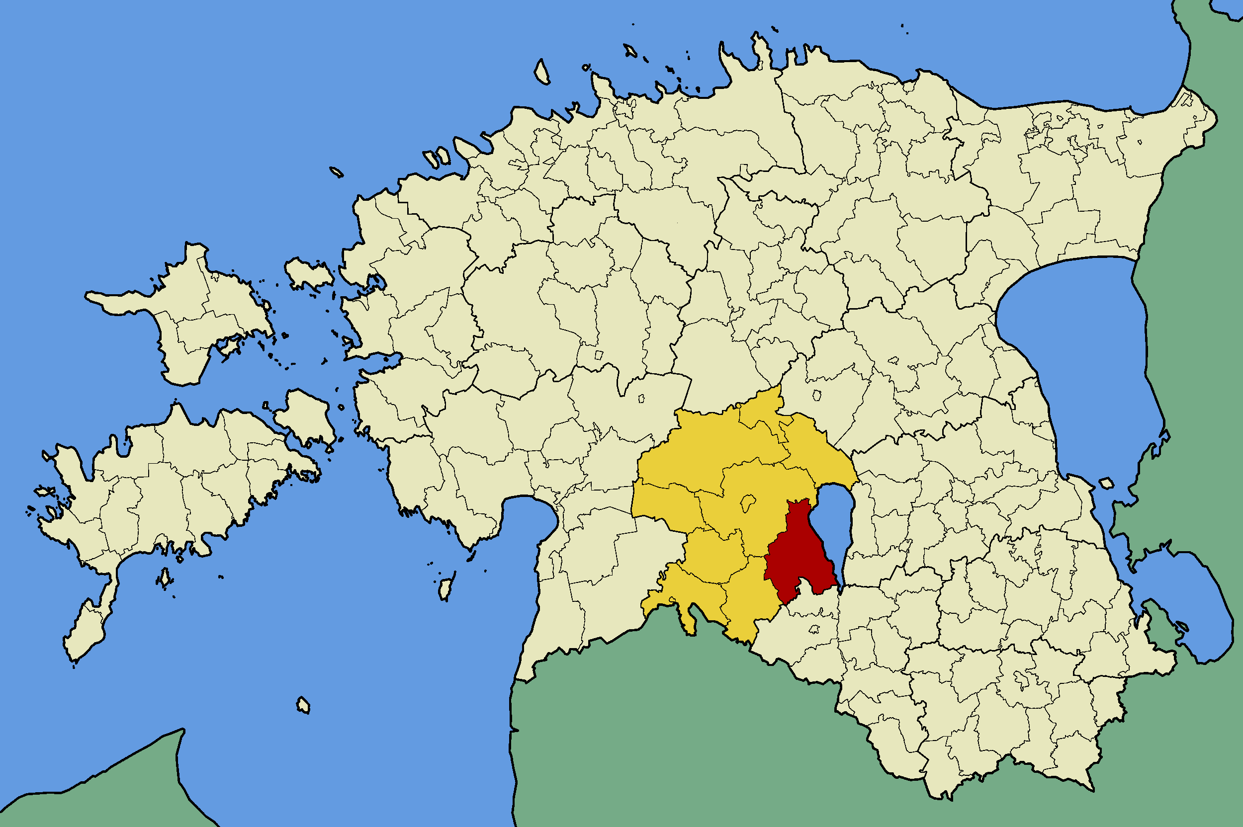 Map of Estonia with borders of municipalities (parishes). Viljandi county and Tarvastu municipality emphasized.